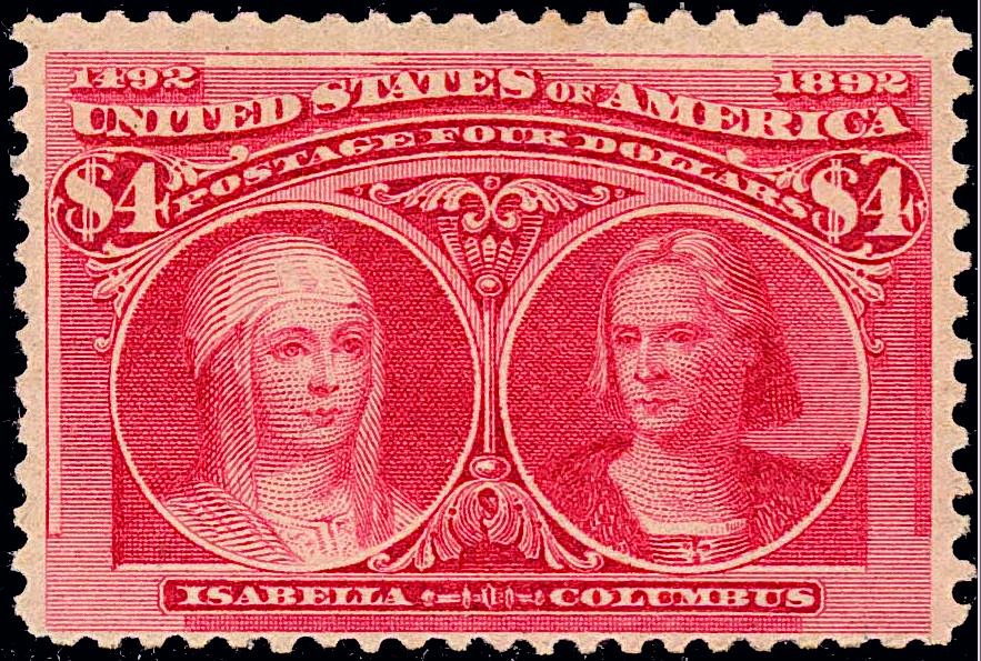 Columbian244b-4$.jpg